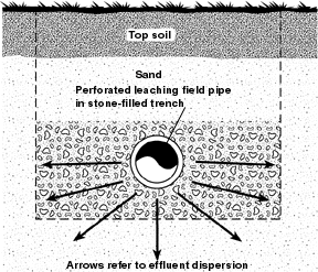 Septic Tank: Illustration shows how an underground septic tank is connected to a house and leaching field.